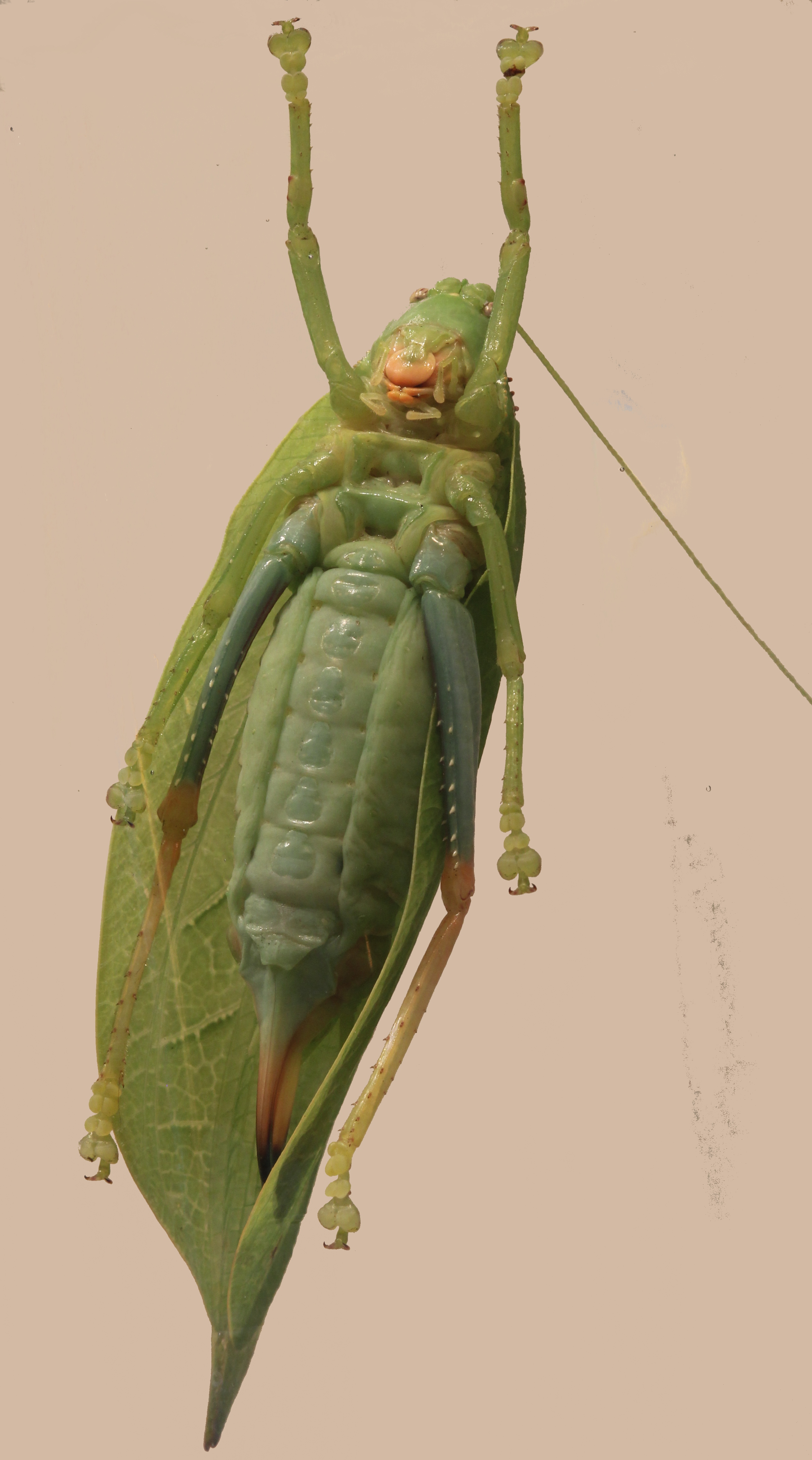 Tettigoniidae Zabalius aridus Mature female True Leaf Katydid ventral aspect